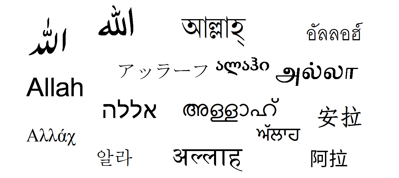 Allah name in different writing Systems.